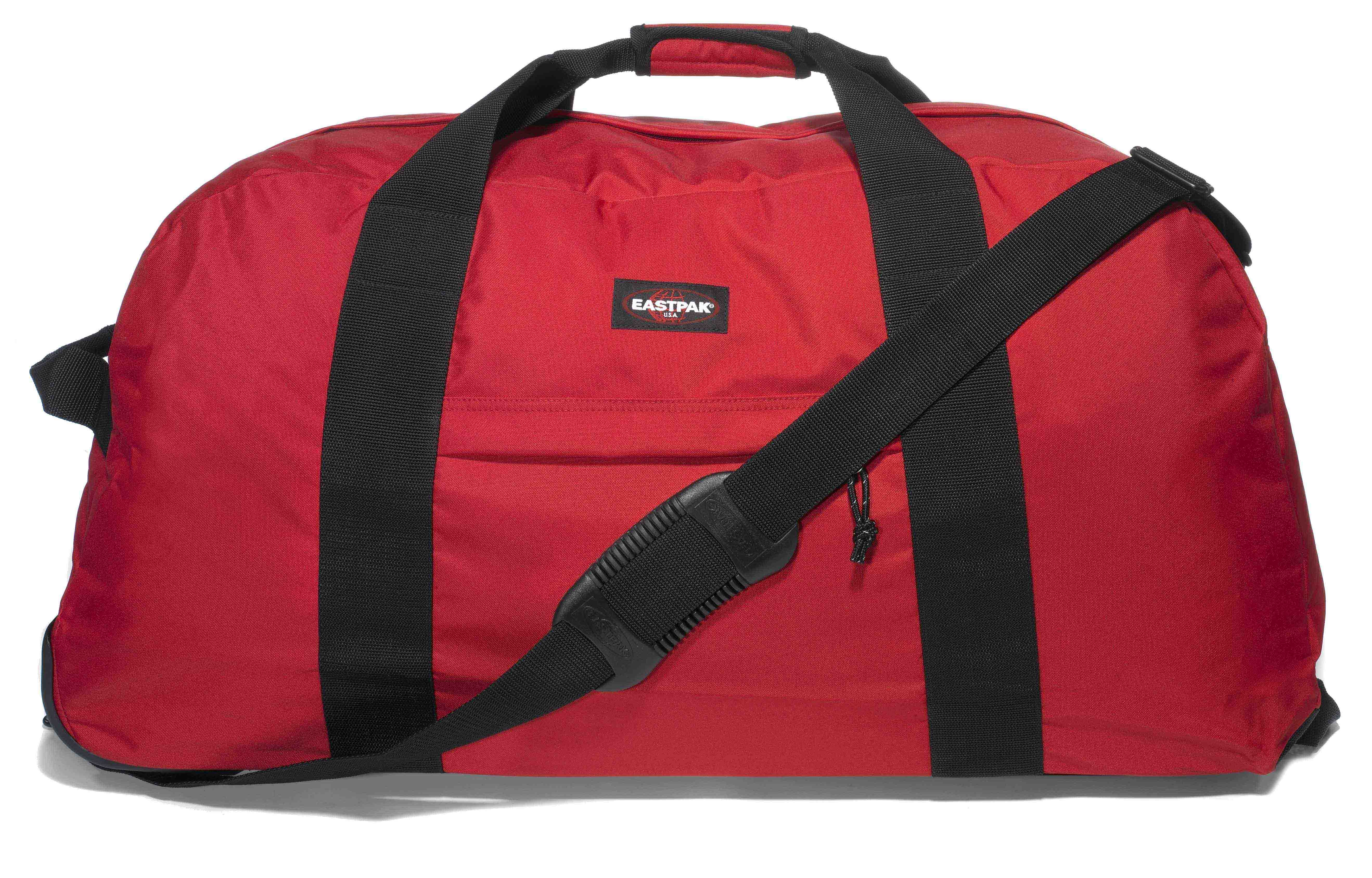 Eastpack backpack. This work is free and may be used by anyone for any purpose. If you wish to use this content, you do not need to request permission as long as you follow any licensing requirements mentioned on this page.